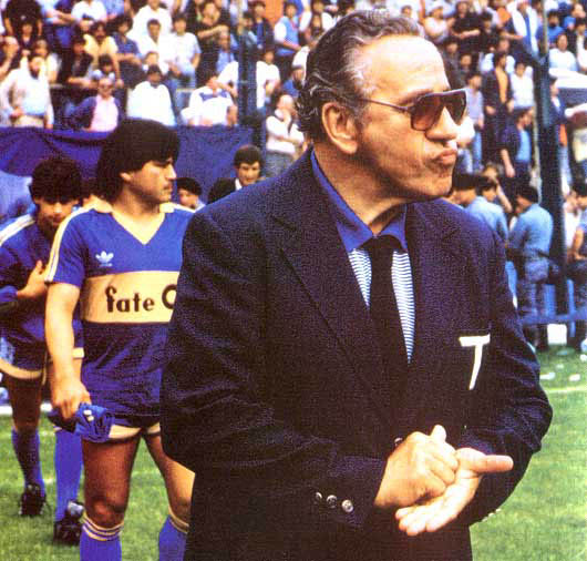 Juan Carlos Toto Lorenzo during his second tenure as coach of Boca Juniors.